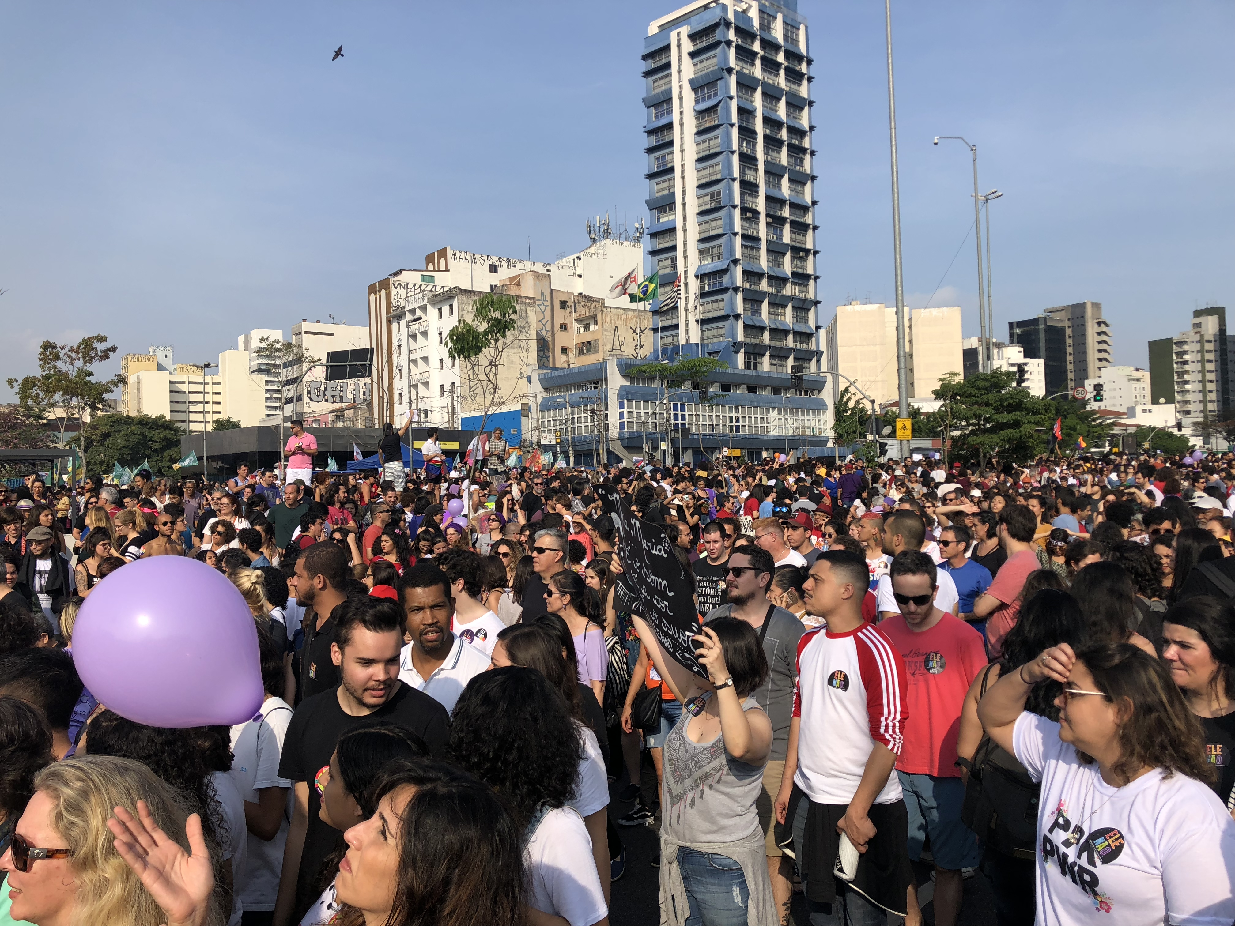 Demonstration against presidential candidate Jair Bolsonaro at Largo da Batata in São Paulo city, Brazil. 29 September 2018.